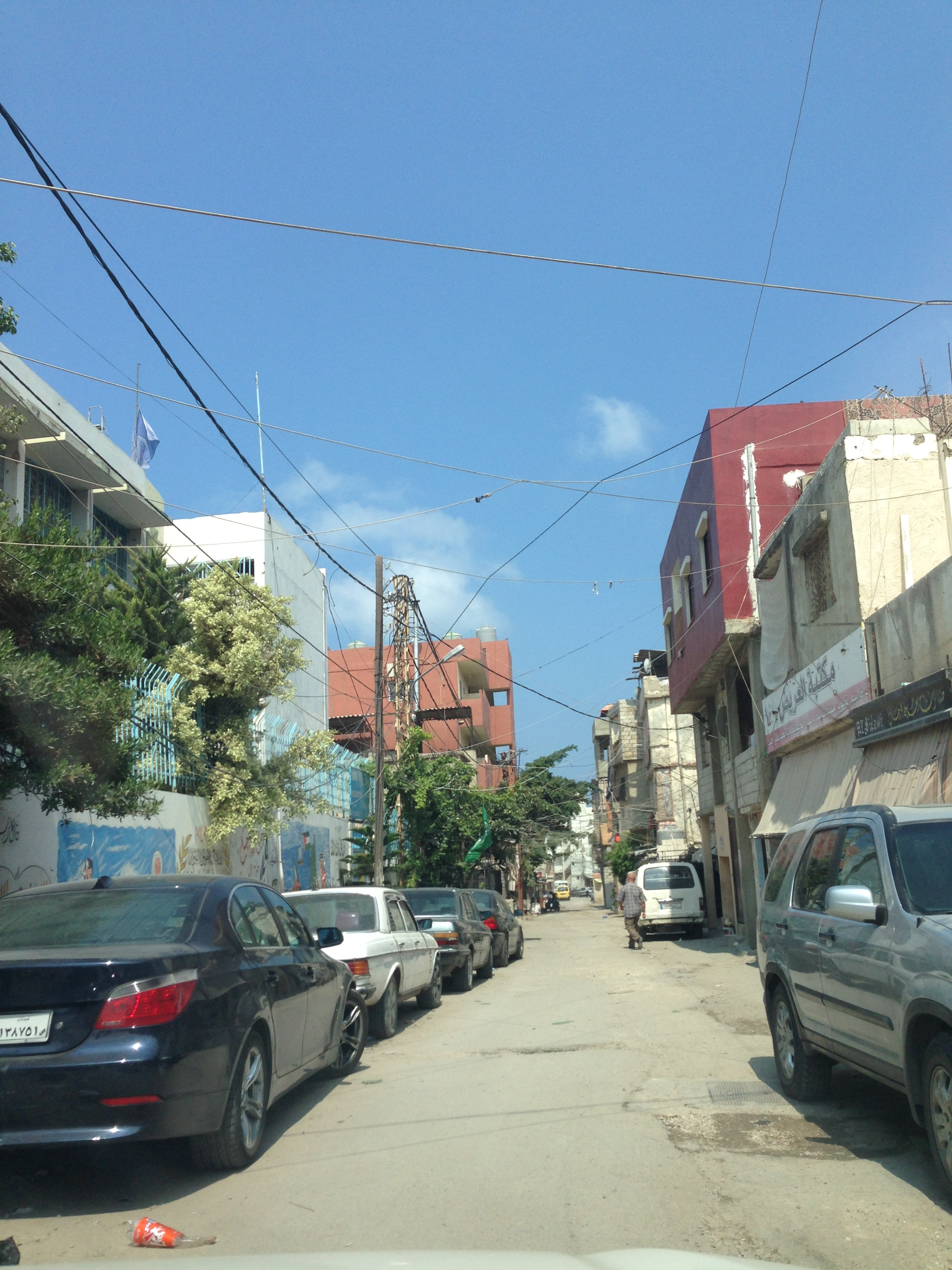 Photograph taken in early 2014 in the Palestinian of Ain El Helweh, near Saida in southern Lebanon